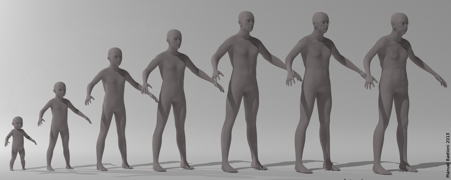 Interpolation of makehuman characters (1th,3th,5th,7th are targets, the others are interpolated).